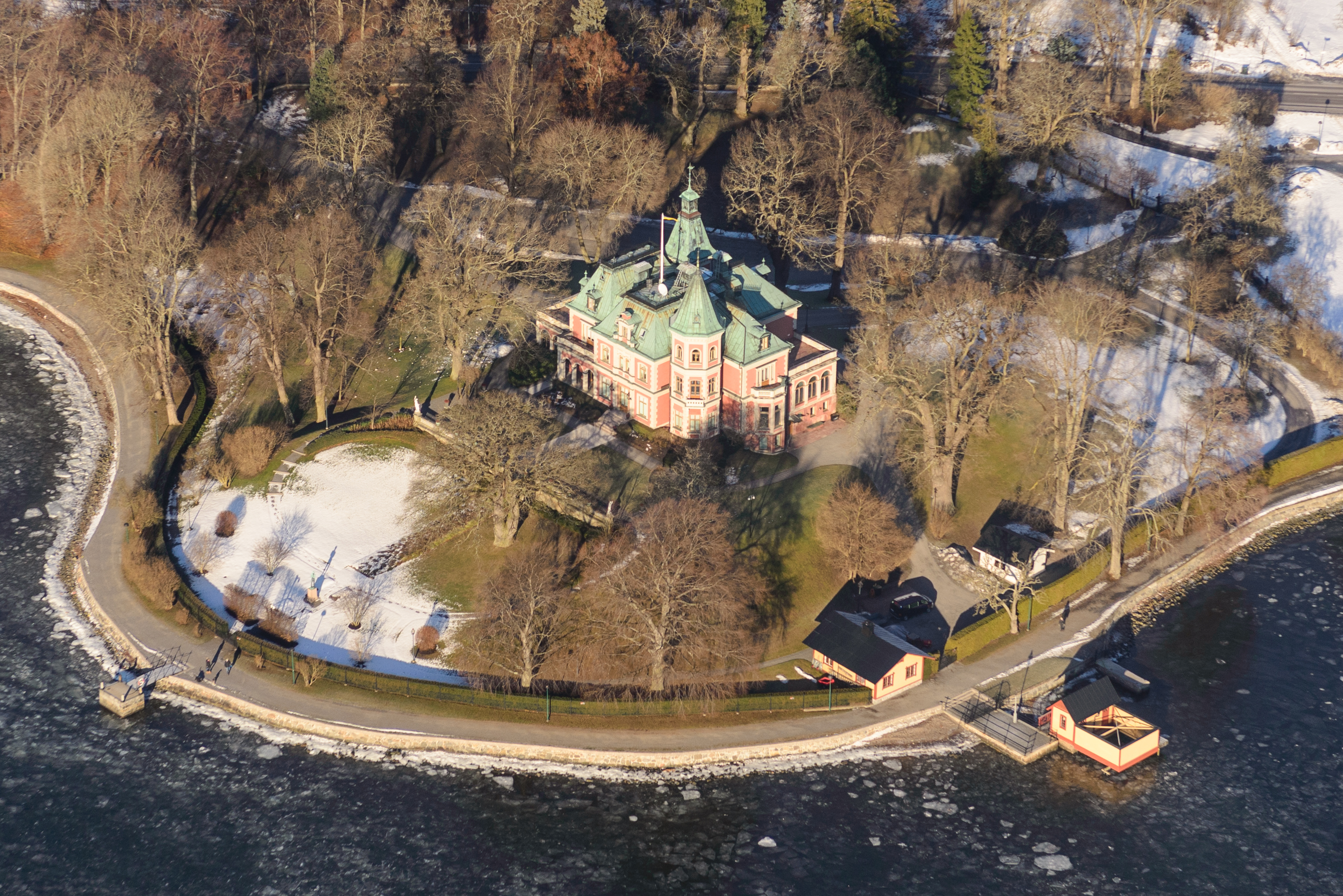 Täcka udden